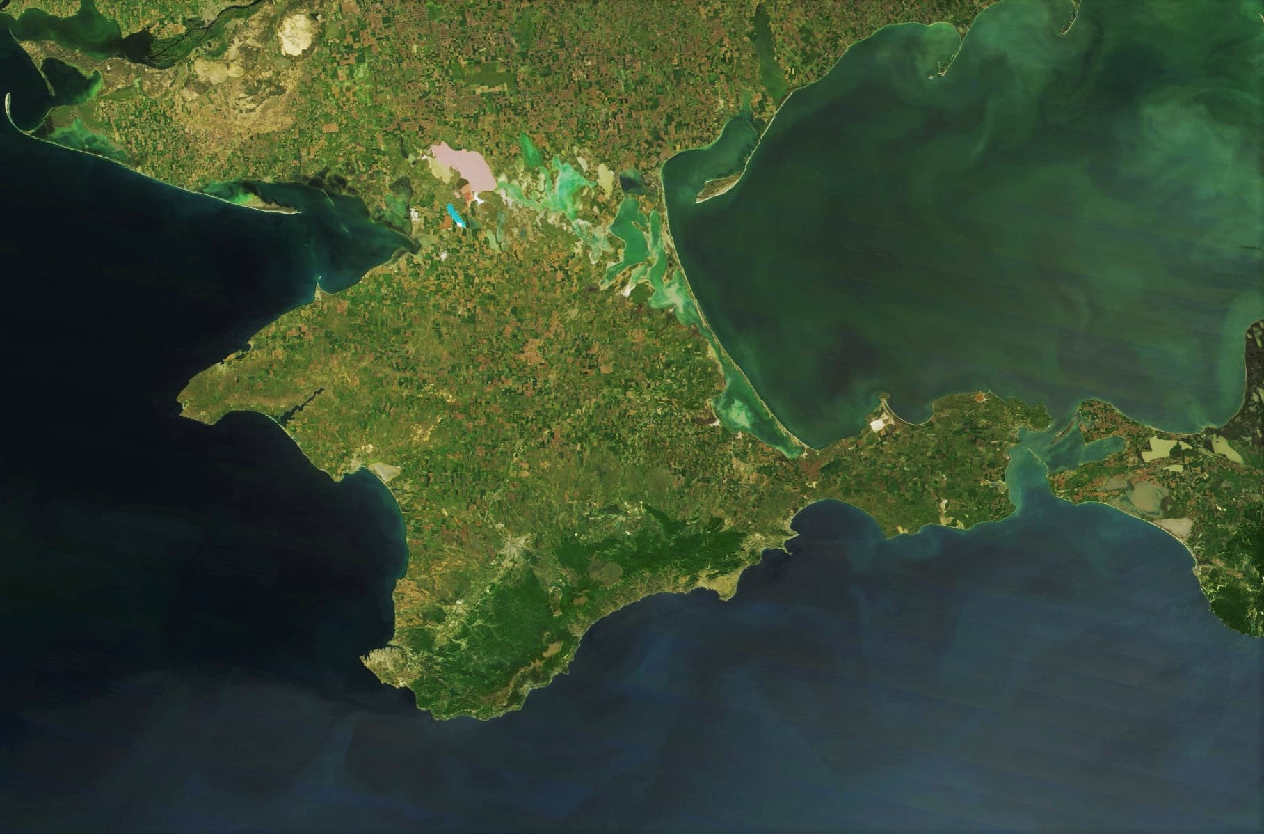 Satellite picture of Crimea, Terra/MODIS, 05-16-2015, spatial resolution 250 m